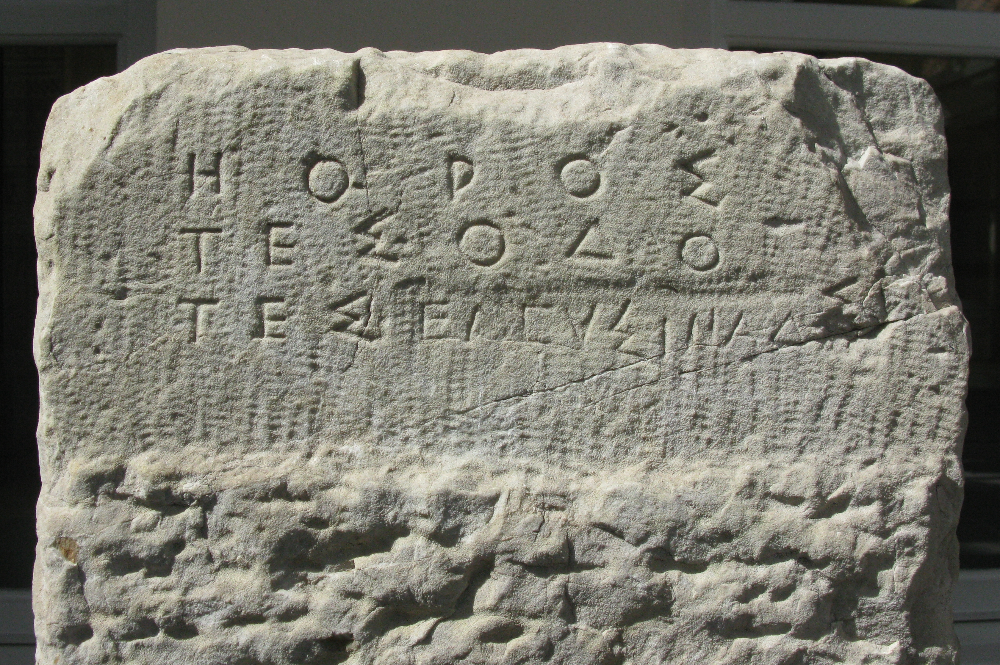 It was originally inscribed with the words "I am the boundary marker of the sacred [way]". At the end of the 5th c. BC, this was replaced with the words "boundary marker of the way to Eleusis". From the Eridanos river bed. Kerameikos, Ancient Graveyard, Athens, Greece.